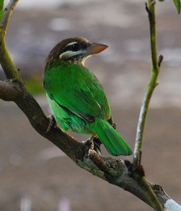 White-cheeked Barbet, Megalaima viridis, identified by Jimfbleak Crop of original